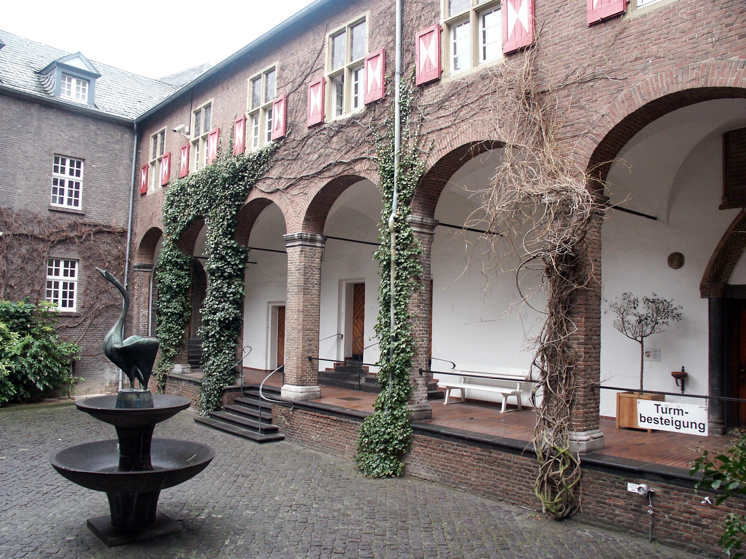 The Schwanenburg, arcade in the inner yard